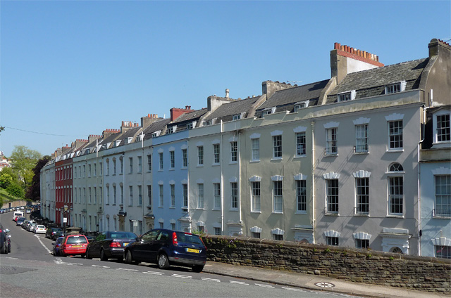 Cornwallis Crescent, Bristol